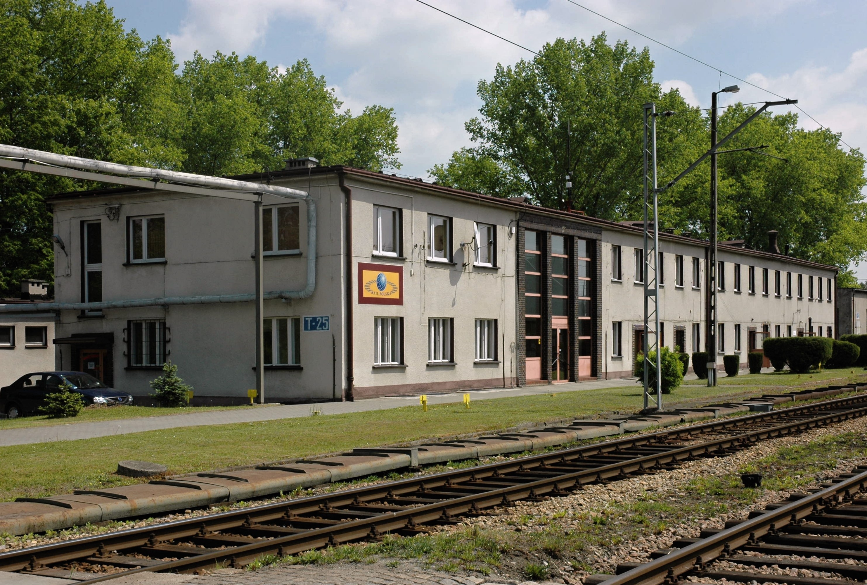 South Region headquarter of Rail Polska; Włosienica, Poland